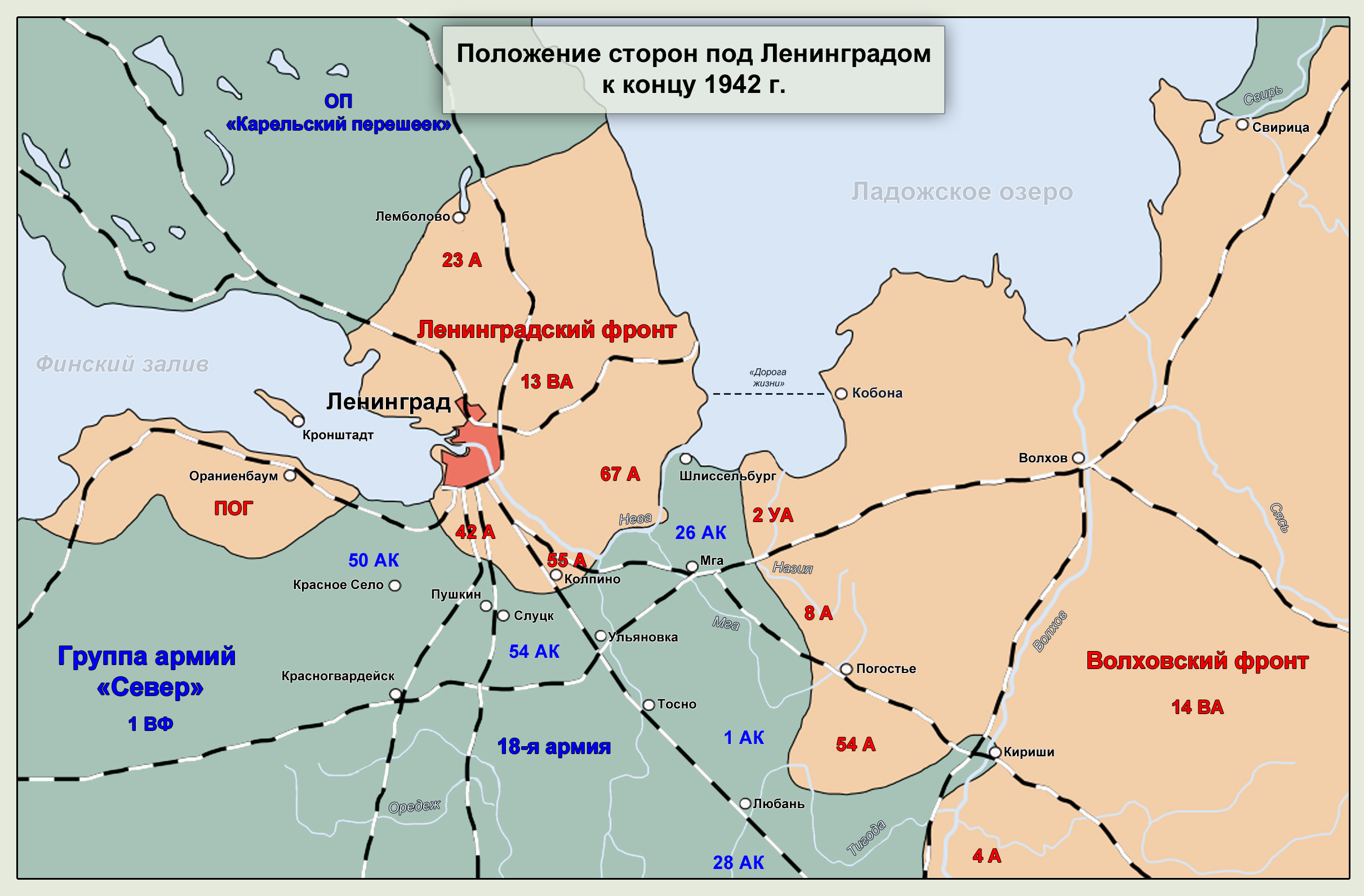 The Siege of Leningrad. Situation of the parties at the end of 1942